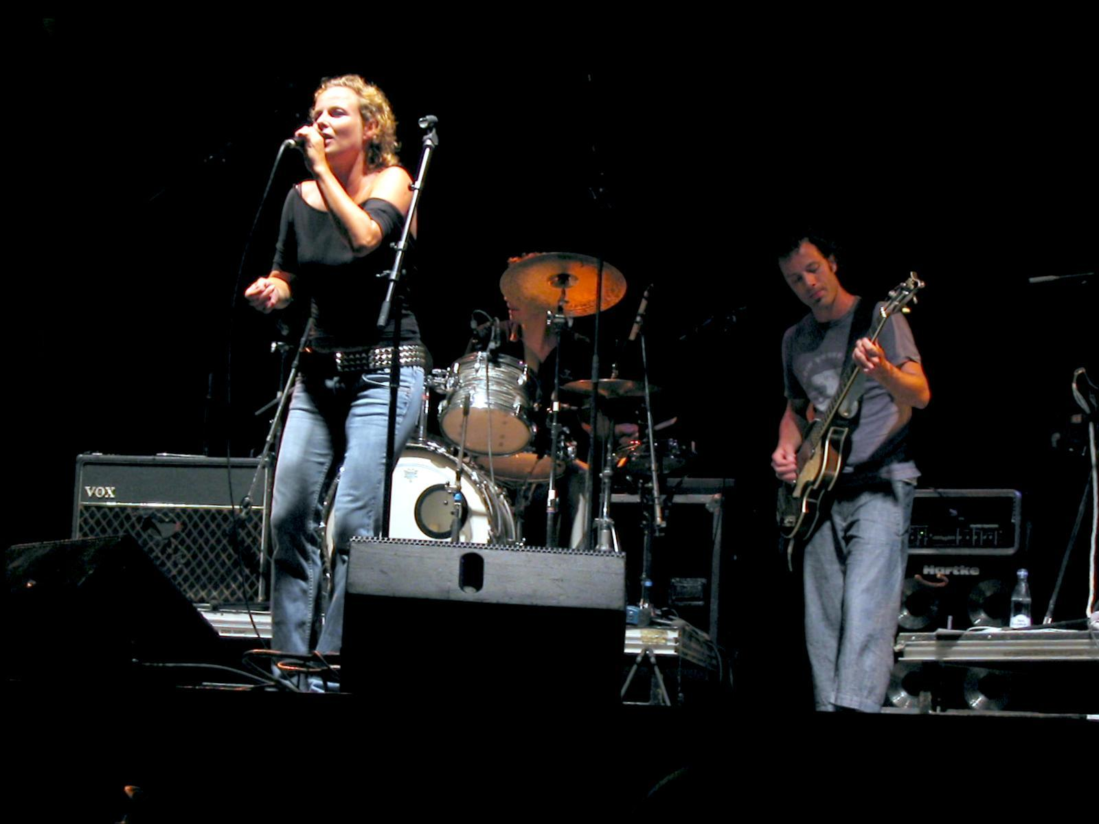 Danish singer Søs Fenger performing in Hjørring, 2003